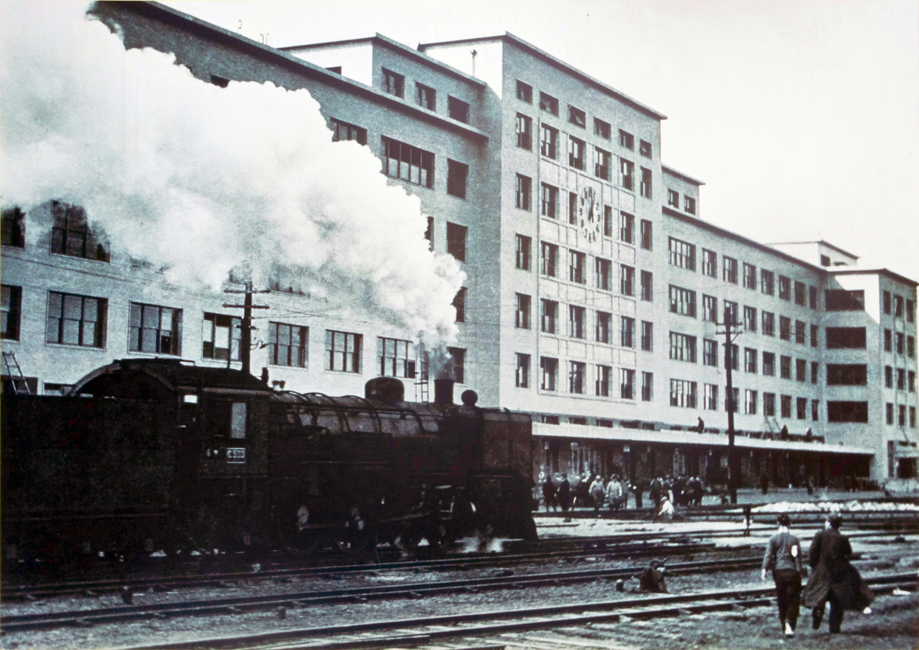 Nagoya Station at the completion of building in Shōwa 12 [1937]. Photozou Tags: ゲートタワー セントラルタワーズ 工事現場 蒸気機関車 名古屋駅 名古屋市.